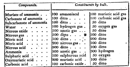 Thomson, Thomas. Elements of Chemistry. Philadelphia: Published and Sold by J. & A.Y. Humphreys, 1810. 483. Print.